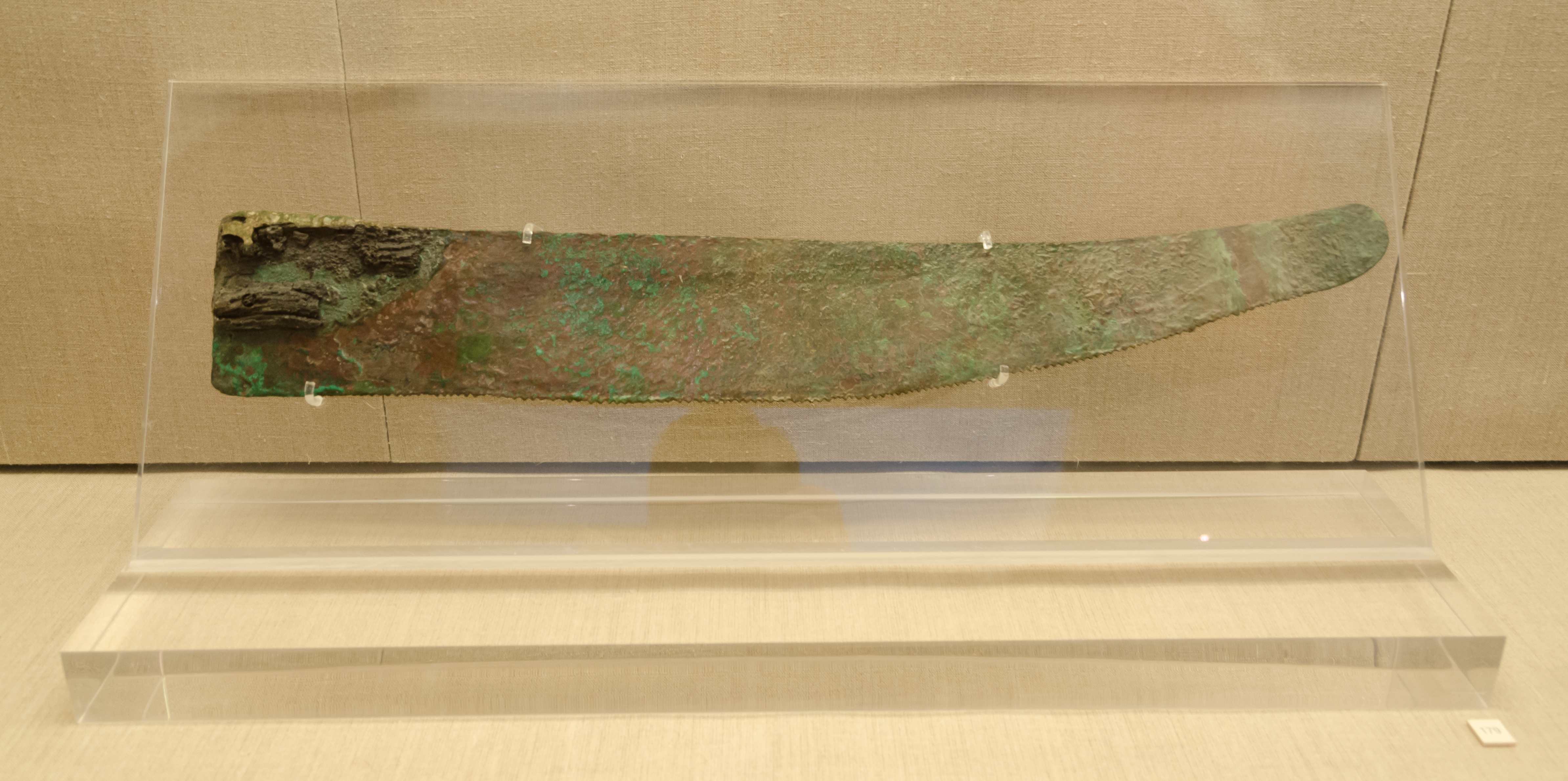 Bronze saw from the Archaeological site of Akrotiri, Museum of Prehistoric Thira, Santorini, Greece.